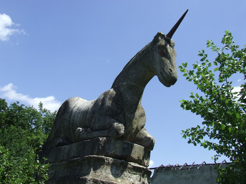 The statue of unicorn in the Kornis Castle from Mănăstirea, Cluj County, Romania.